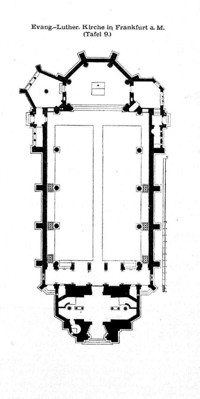 Evangelisch-Lutherische Kirch in Frankfurt, Architekten Neher u. von Kauffmann, Frankfurt, Grundriss, Tafel 9, Kick Jahrgang II